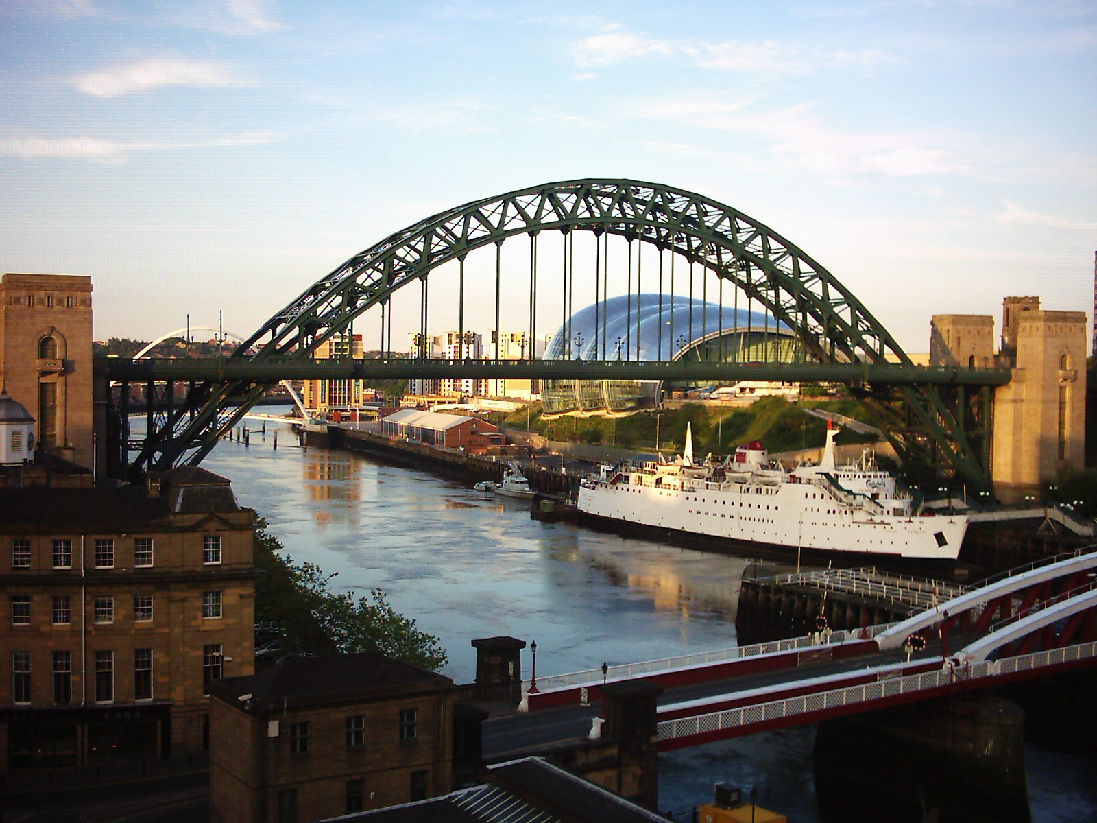 The Tyne Bridge in Newcastle upon Tyne, England, viewed from the Newcastle side. The end of the Swing Bridge is also visible in the foreground. The Sage is the building behind the bridge. The ship beneath the bridge is the permanently moored Tuxedo Princess floating nightclub (the former car ferry TSS Caledonian Princess).